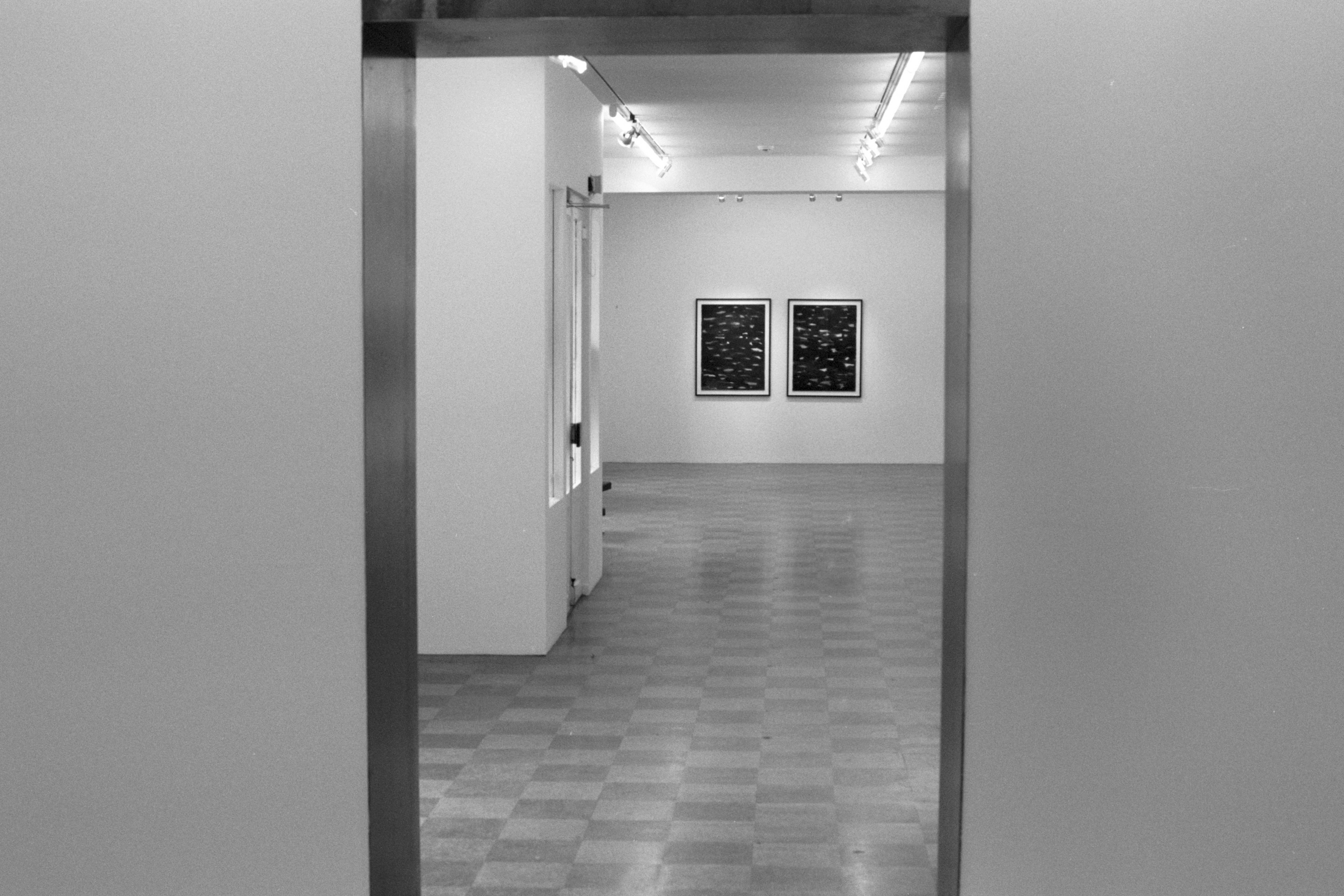 Wetterling Gallery, Stockholm.